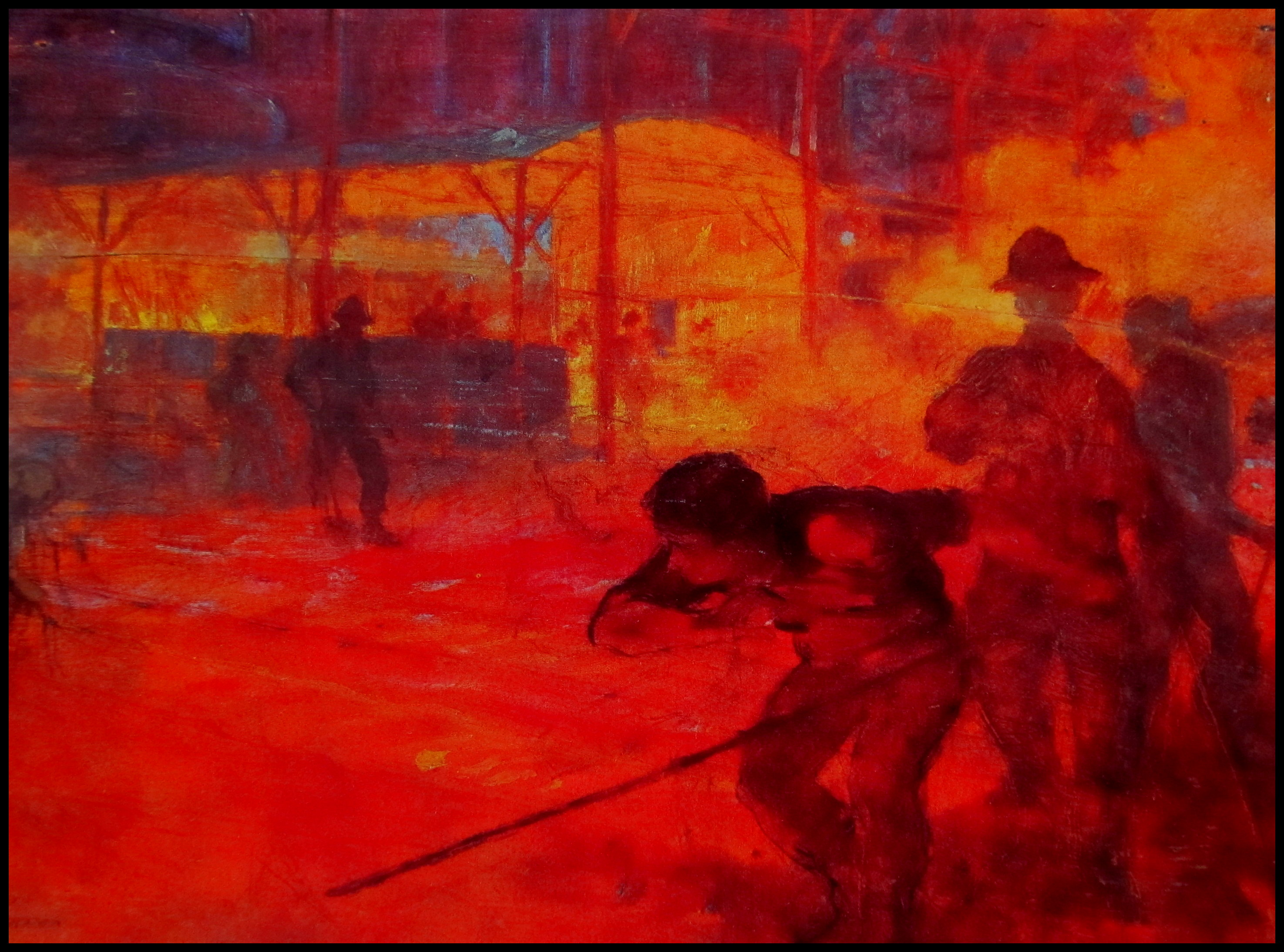 elba island